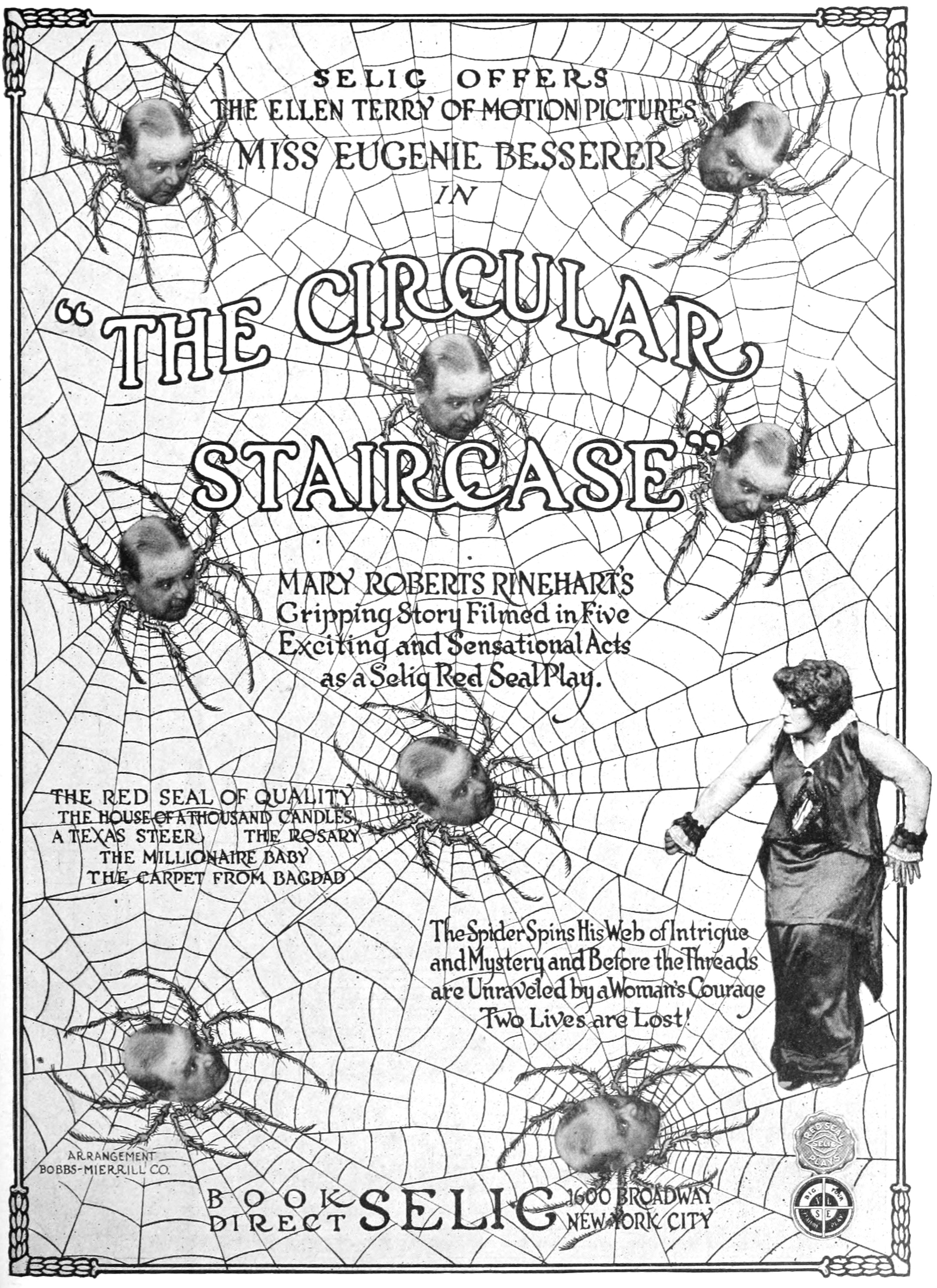 Advertisement for the film version of Mary Roberts Rinehart’s novel The Circular Staircase, 1915